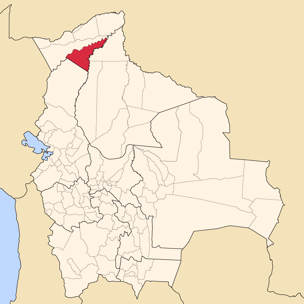 Map of Bolivia showing Madre de Dios province, Pando